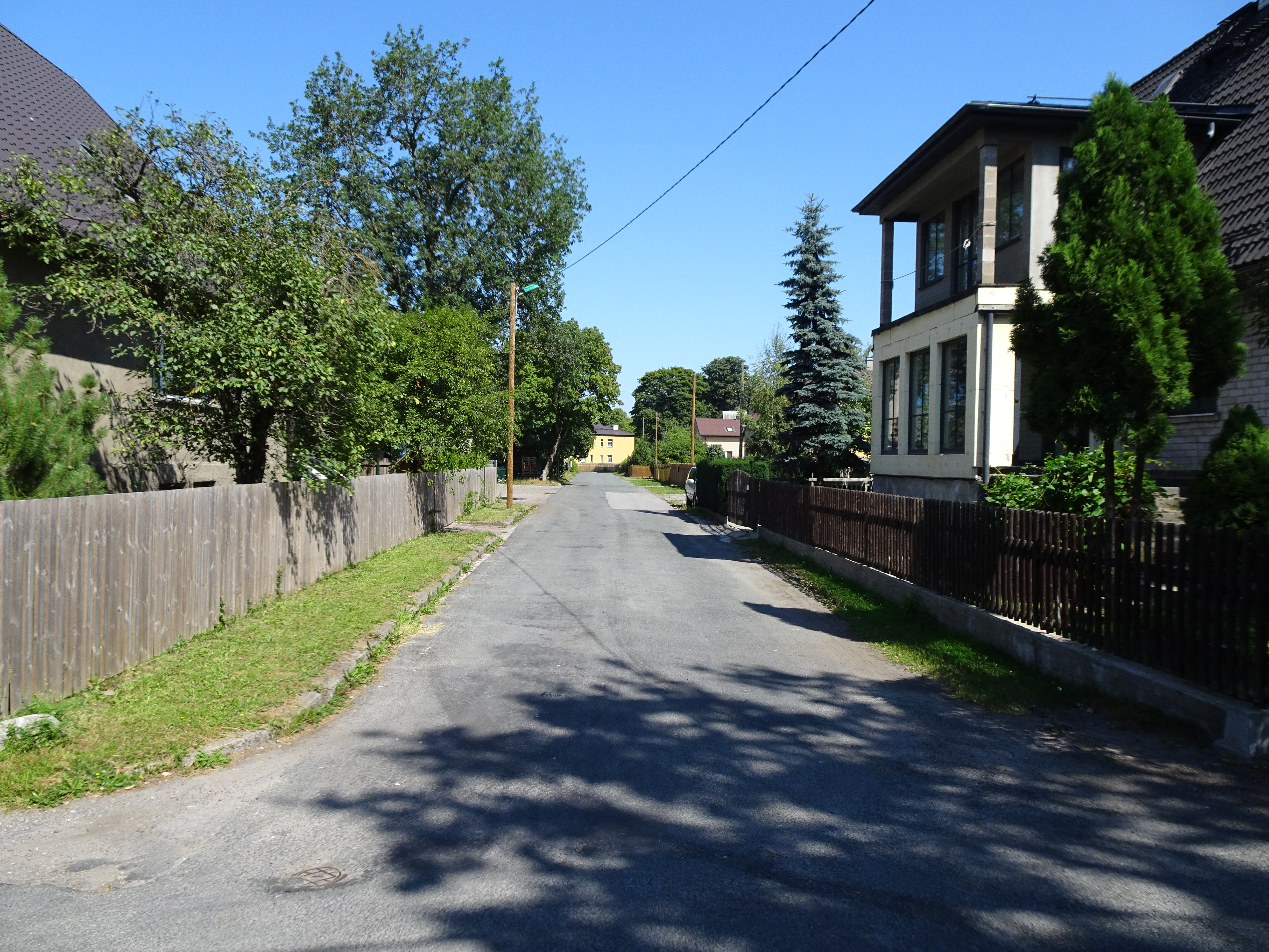 Hauka Street in Tallinn Estonia